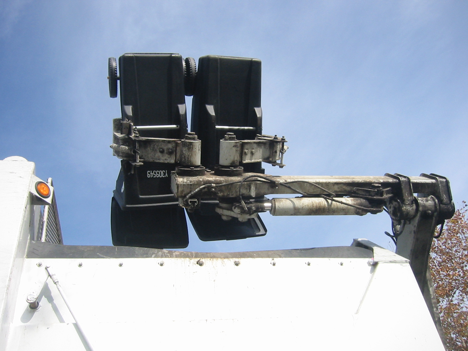 In theory, the machines should be able to drive down the residential roads and using the arm, pick up the garbage containers. The system does not work that well. I was able to take these photographs while the man operating this machine was away making the waste containers accessible to the machine. This machine has an arm; others in this same fleet have a hook and the operator must get out of the truck at each location and attach the hook to the metal bars which are embedded into the containers. The arm, grabbing two waste containers at one time is a rare and beautiful sight.